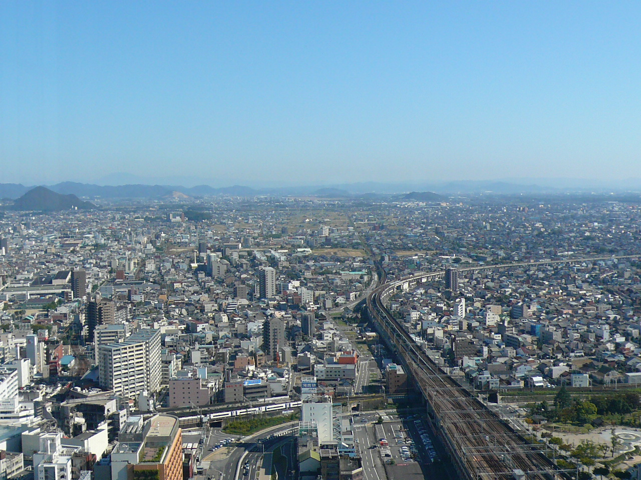 A picture taken from the observatory atop Gifu City Tower 43